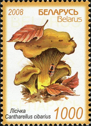 Stamp of Belarus